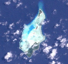 This image (Landsat 7) shows the Strathord Islands, a subgroup in the Bonvouloir islands, Louisiade Archipelago, Papua New Guinea.